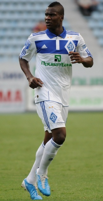 Ideye Aide Brown